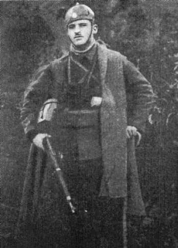 Nikola Pitu Gulev with interwar IMRO uniform.